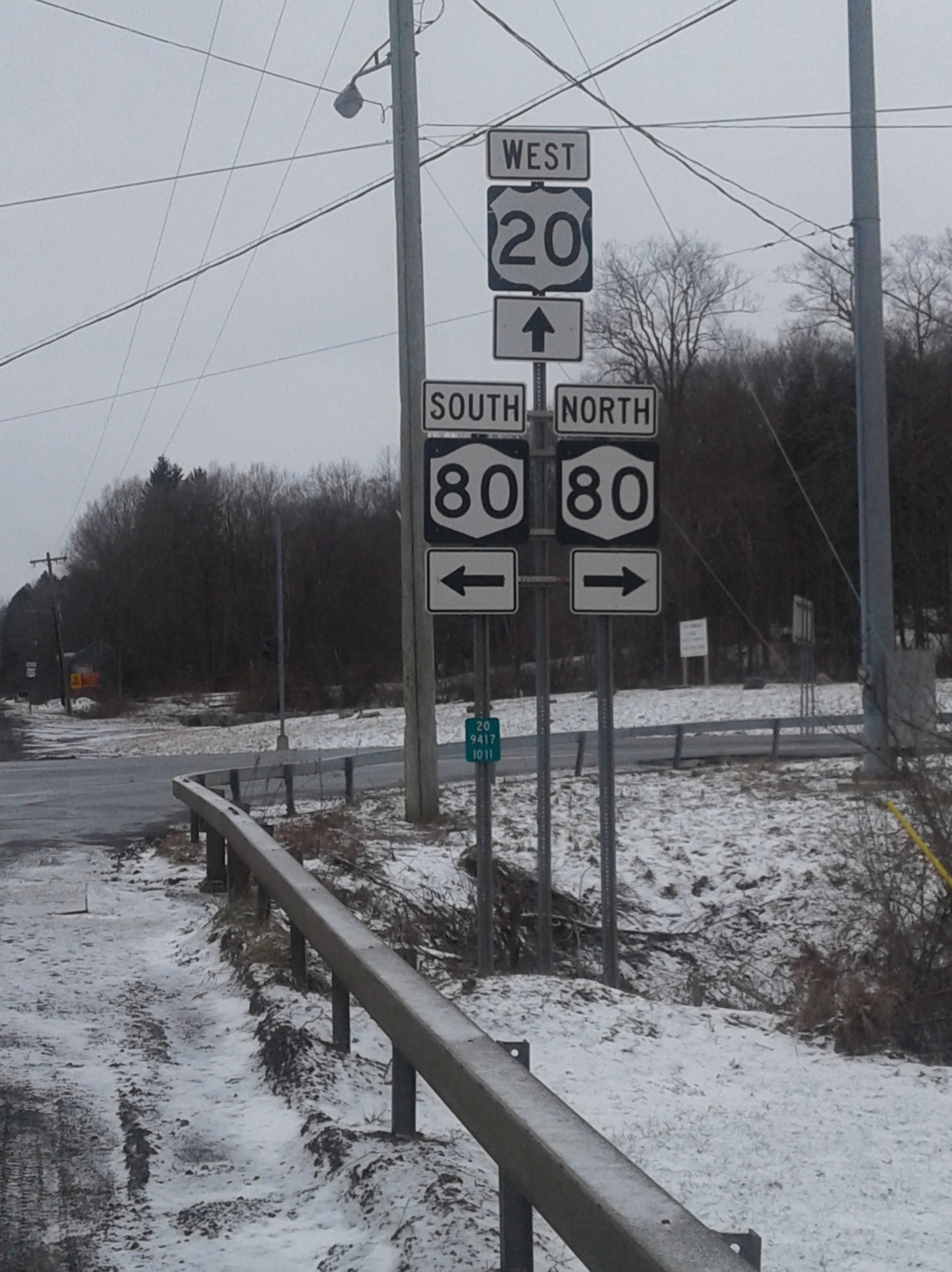 NY 80 and US 20 highway shields in Springfield, New York